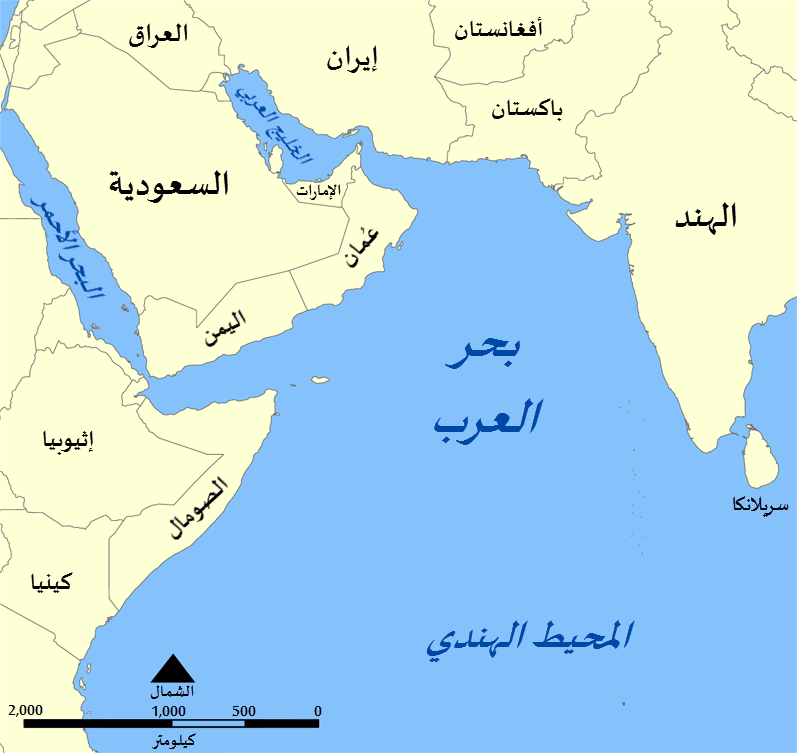 A map showing the location of the Arabian Sea in the Indian Ocean.